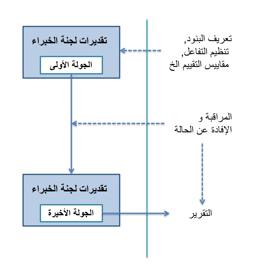 Delphi Method Flowchart in Arabic; see File:DELPHIST.GIF for an English version